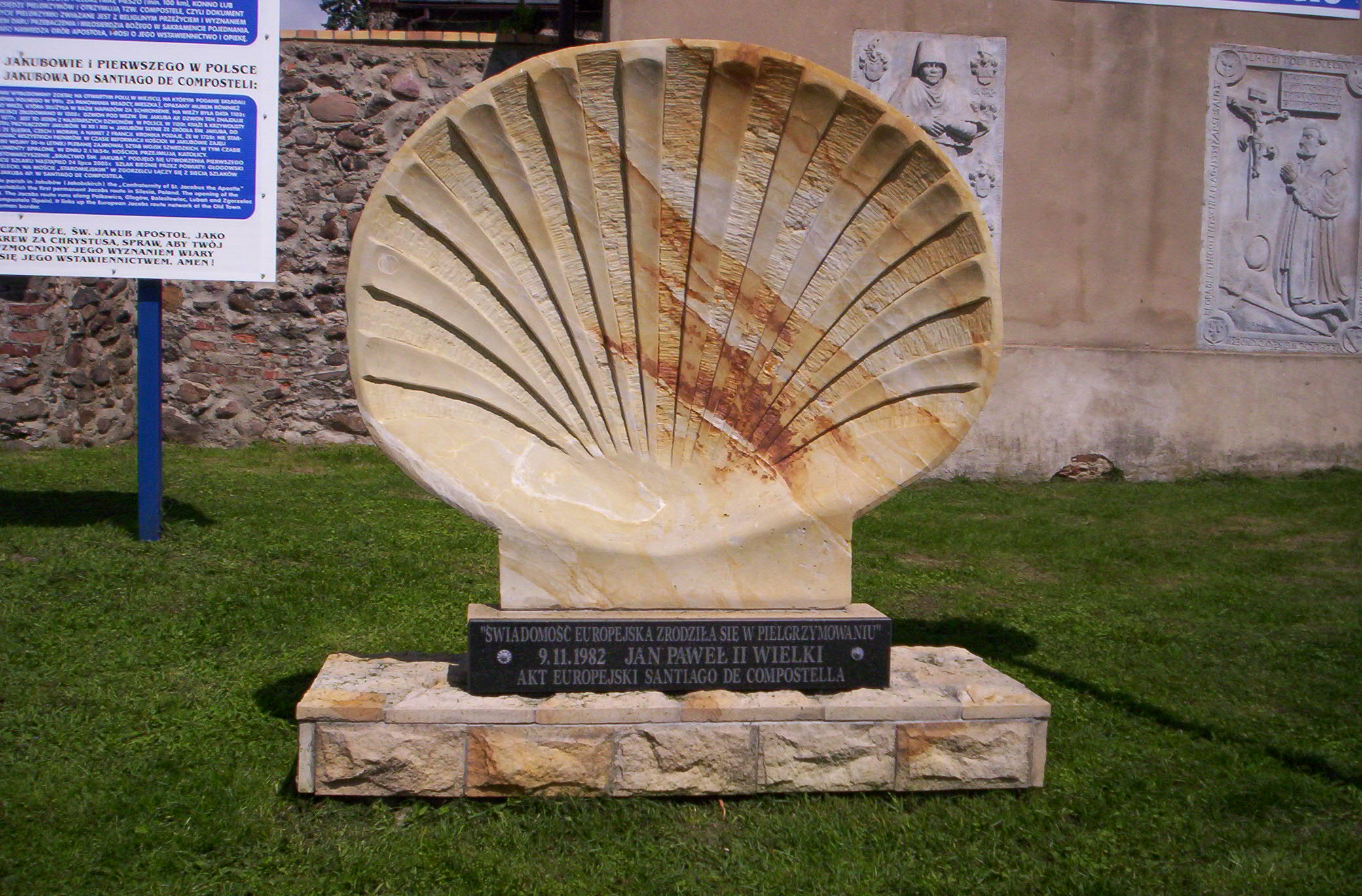 St. Jacob Church in Jakubów, Lower Silesian Voivodship, Polkowice County, Poland.